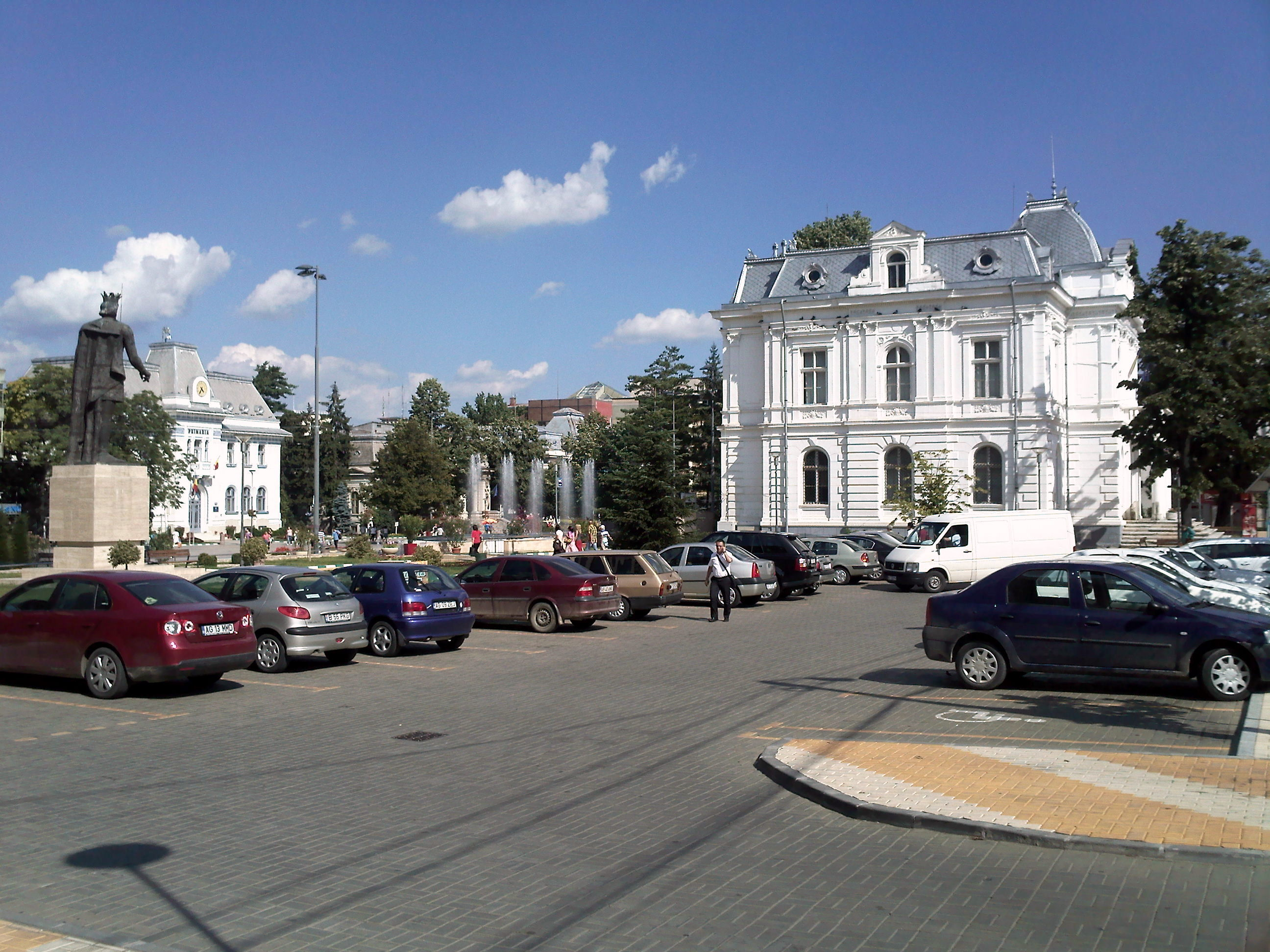 View of the Art Gallery and City Hall from Al. Davila theater